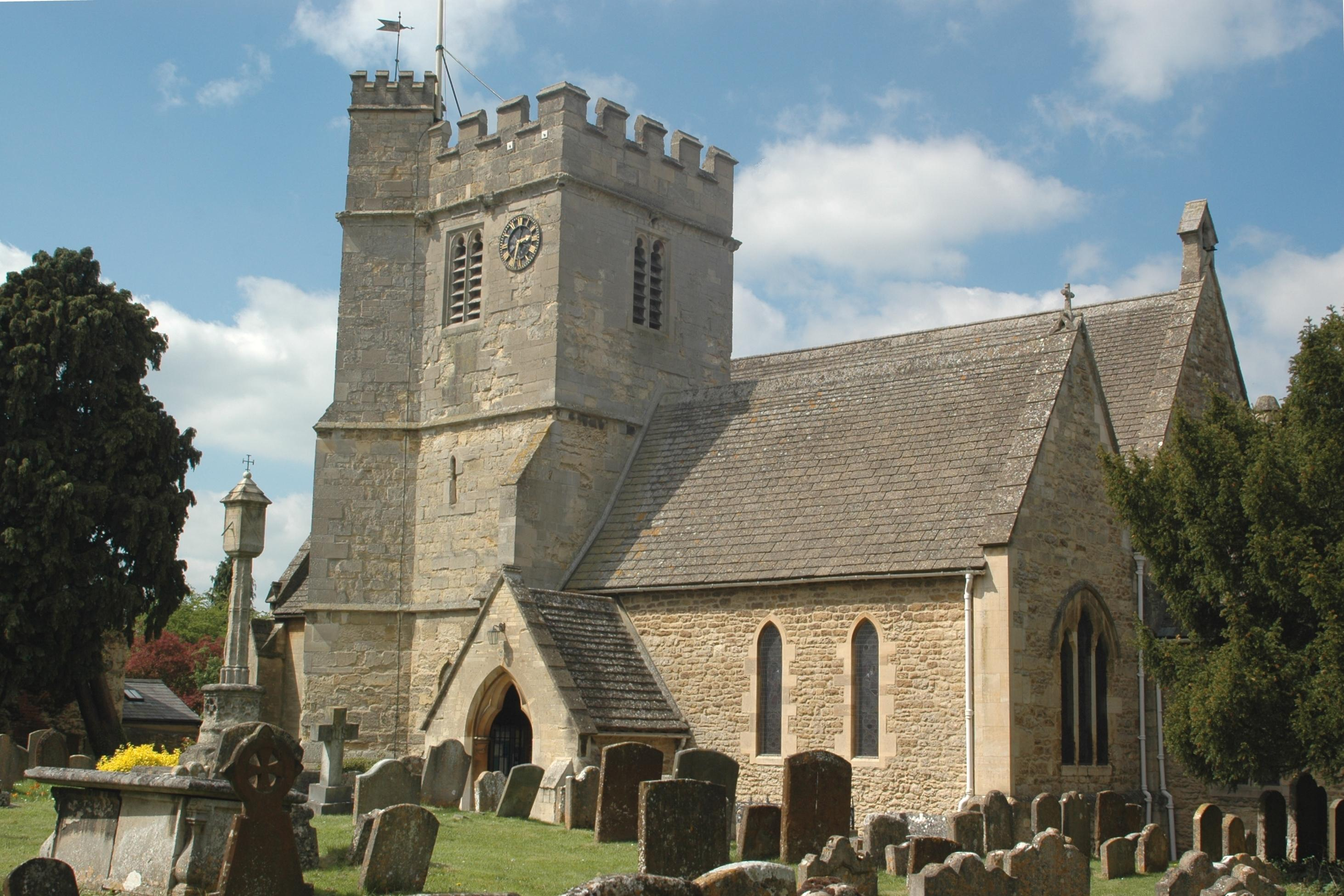 Church of England parish church of St. Andrew, Headington, Oxfordshire: view from the southeast